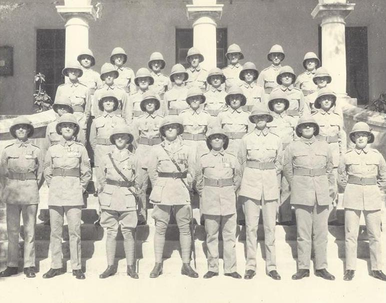 Bermuda Volunteer Engineers, at the Masonic Hall (near to the Hamilton Armoury of the Bermuda Volunteer Rifle Corps), on Reid Street, in the City of Hamilton, Bermuda, in 1934, including Captain HD Butterfield (front row, fourth from left) and Lieutenant Cecil Montgomery-Moore, DFC (front row, third left)